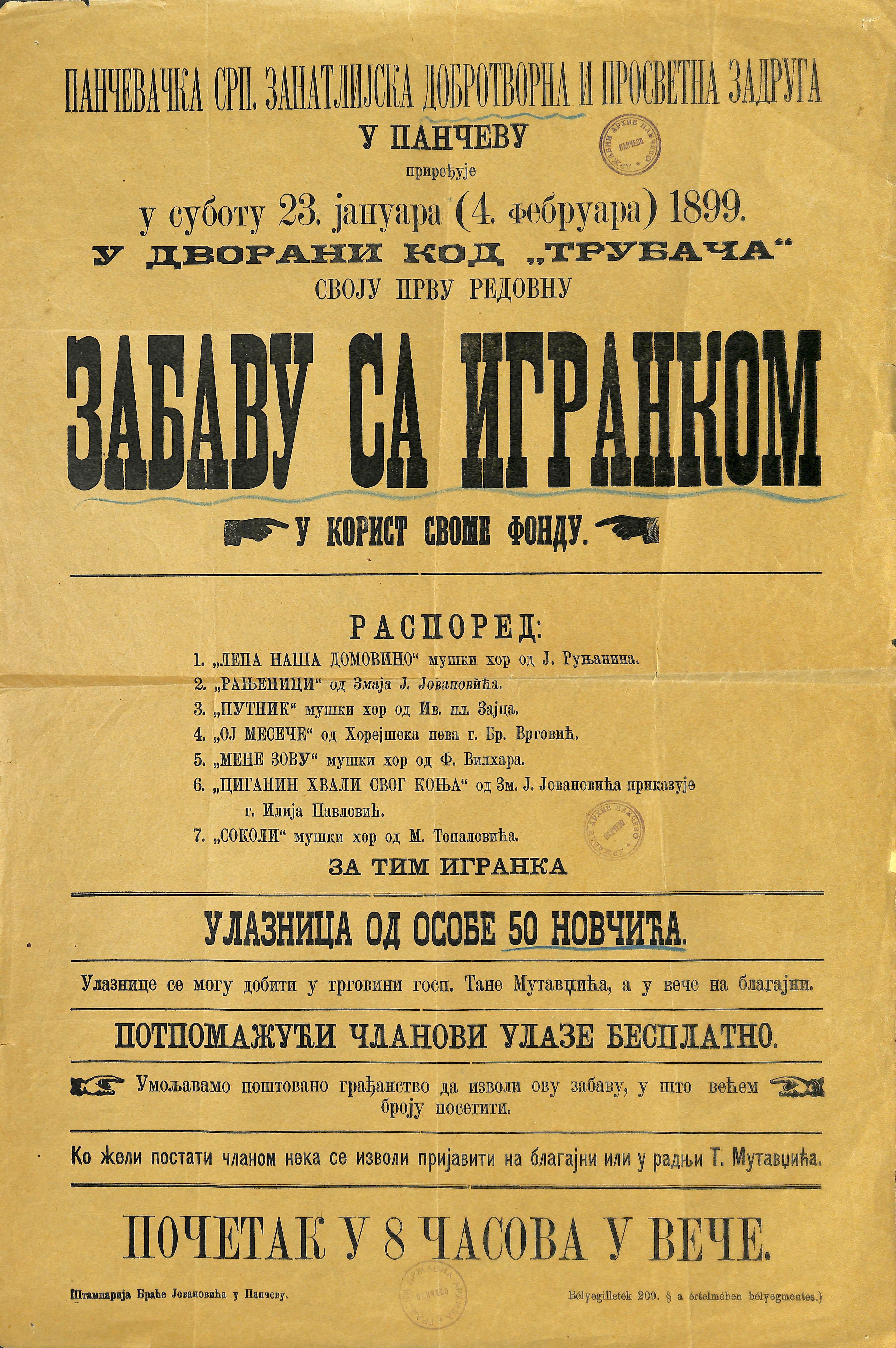 Poster by the crafts collective intended for charity party in Pančevo February 4, 1899.